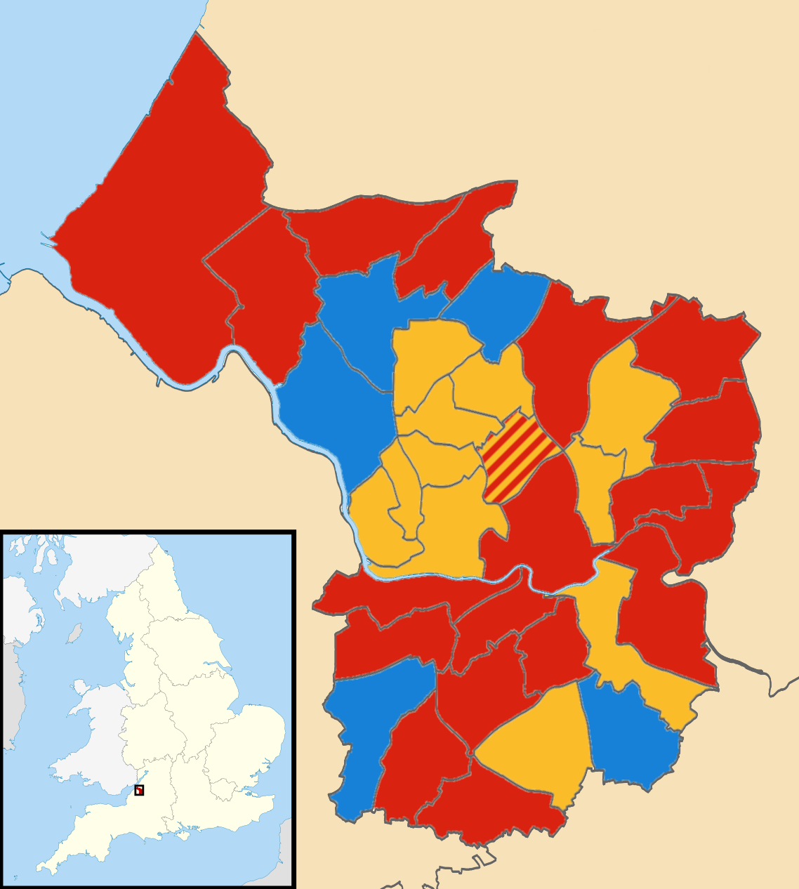 Results of the 1999 local elections in Bristol Colours: Conservative Labour Liberal Democrat Every seat was up for election in 1999 (due to boundary changes), with each ward electing 2 Councillors.